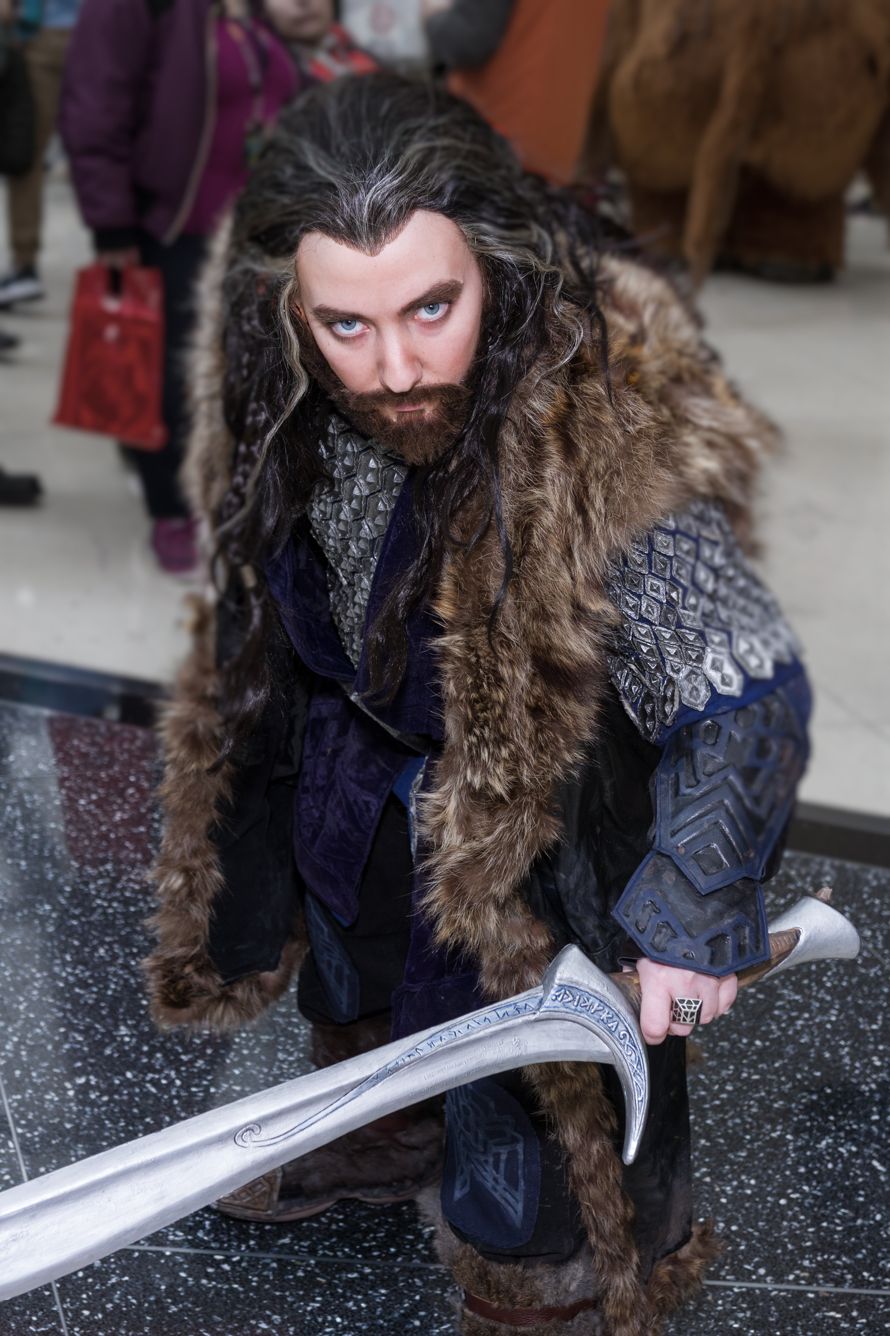 c2e2 2016-March 19, 2016-0093.jpg Cosplay at Chicago Comic & Entertainment Expo (C2E2) 2016.